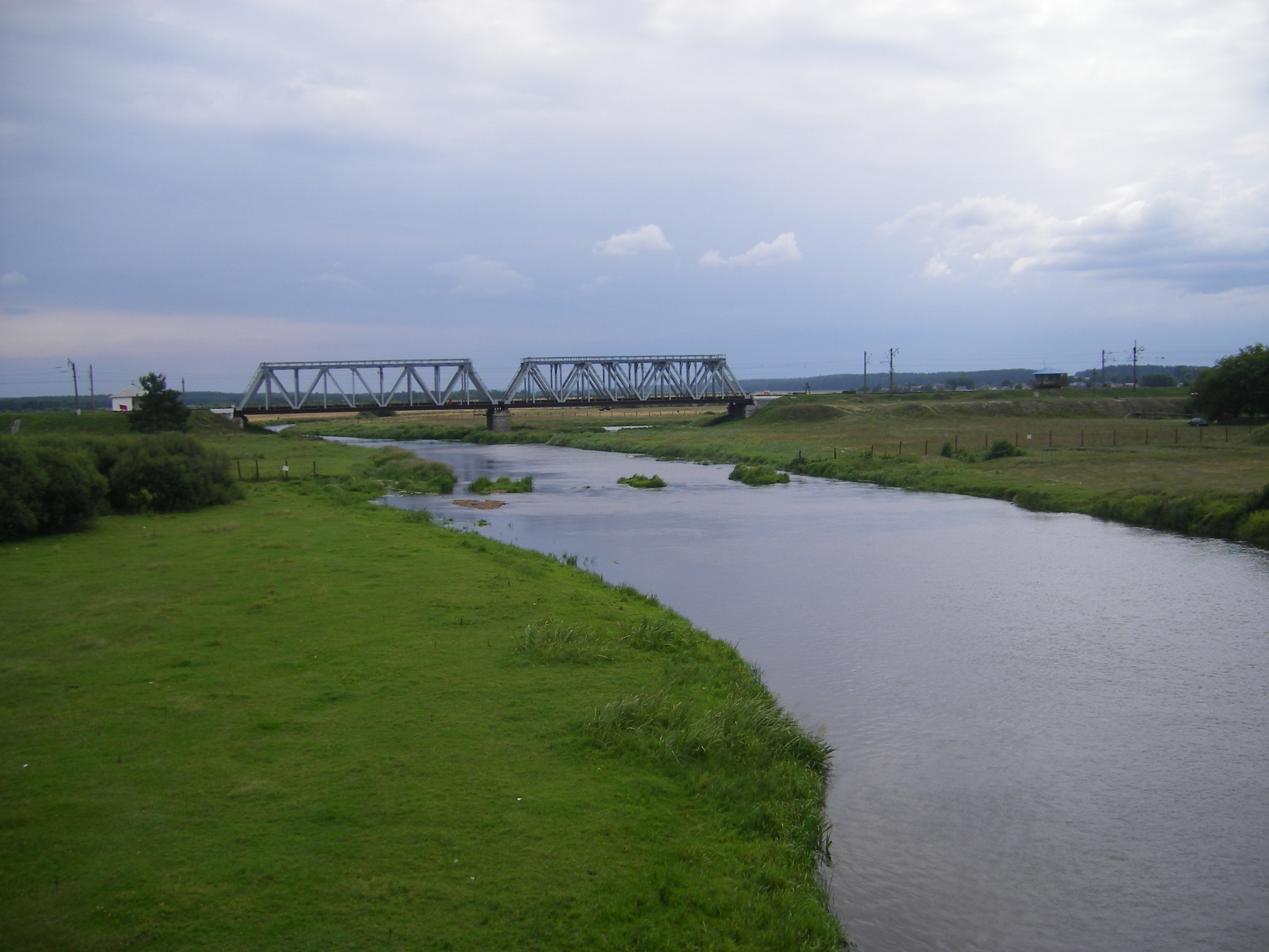 Stowbtsy, Neman river (railway bridge)